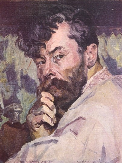 Oleksa Novakivsky